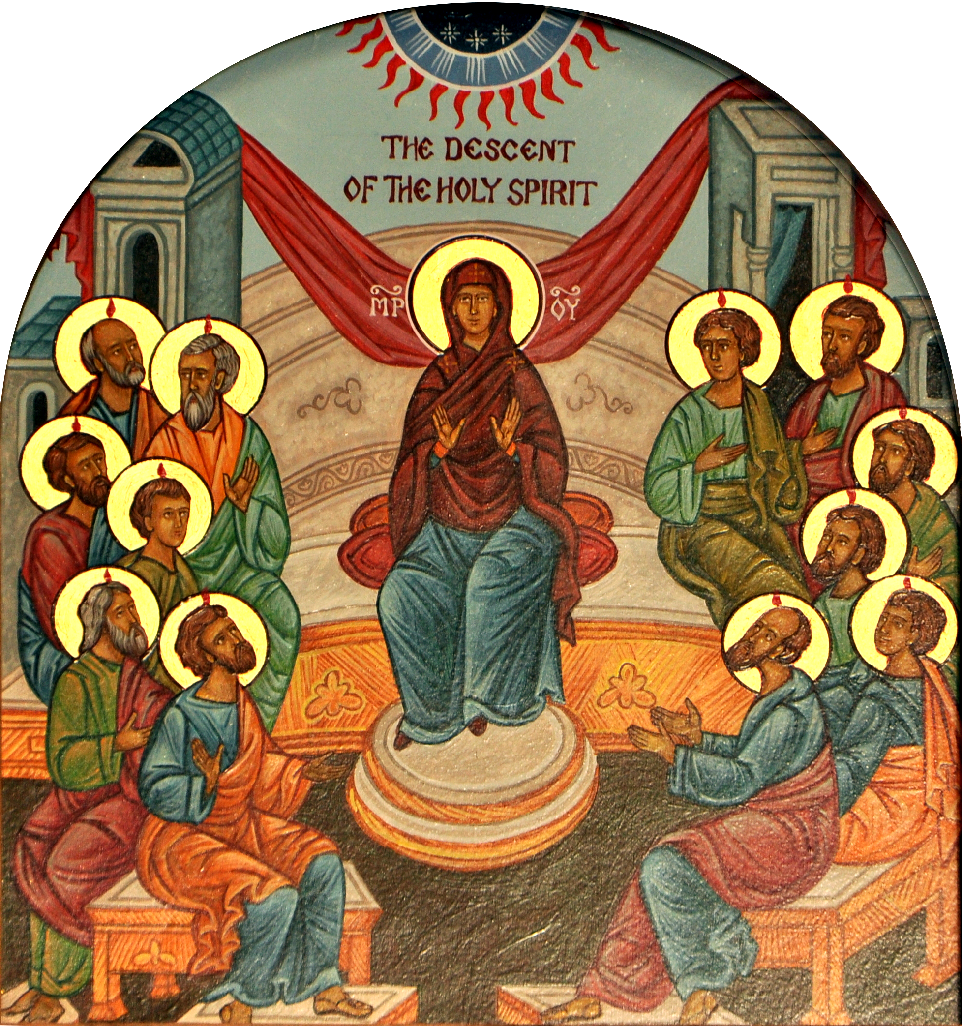 Derivative work. Original image was taken by bobsh_t Flickr user.